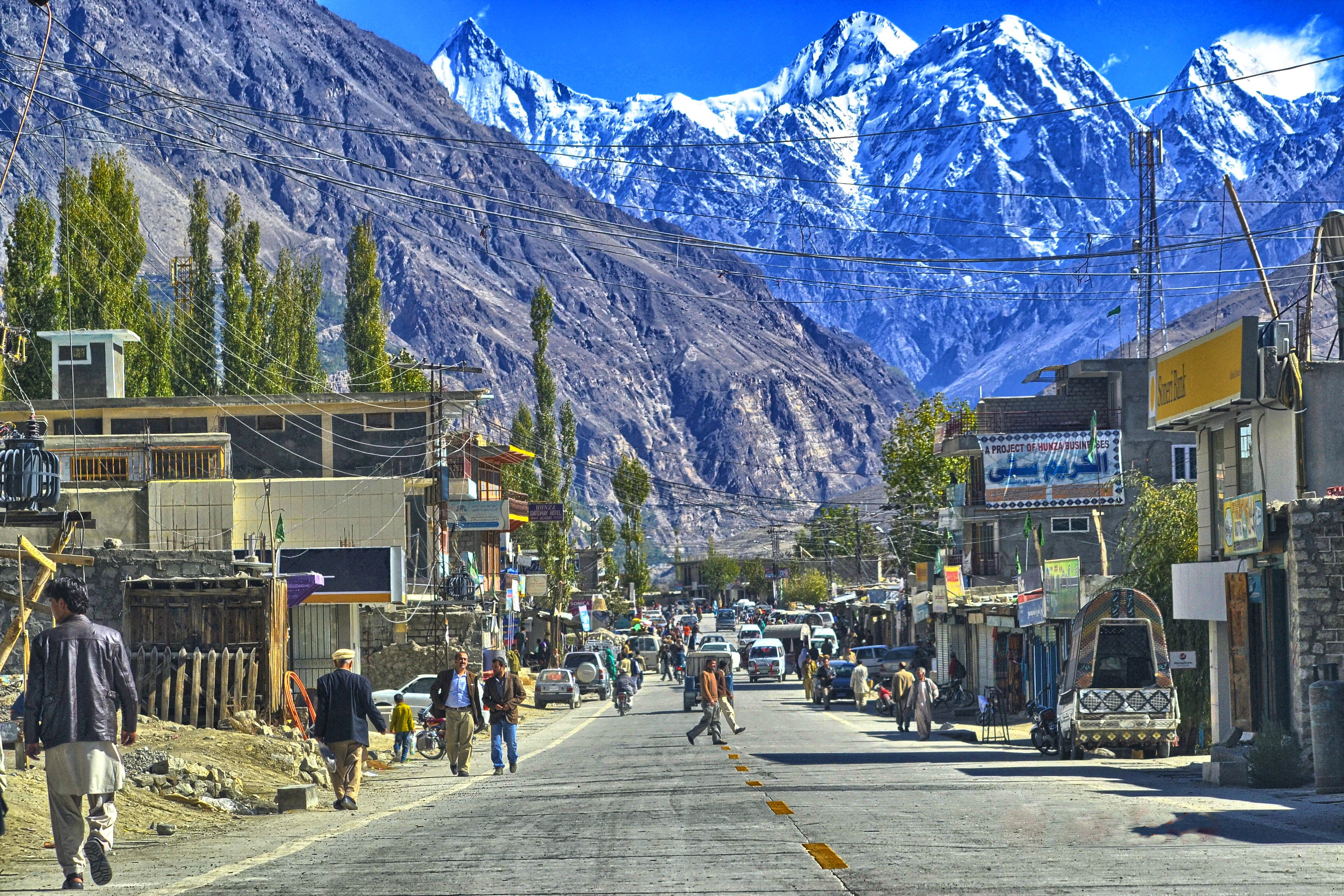 Hunza City